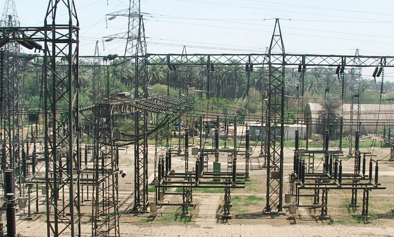 An electric power transformation substation in Iraq. The Iraqi power grid remains very fragile and susceptible to attacks and breakdown.